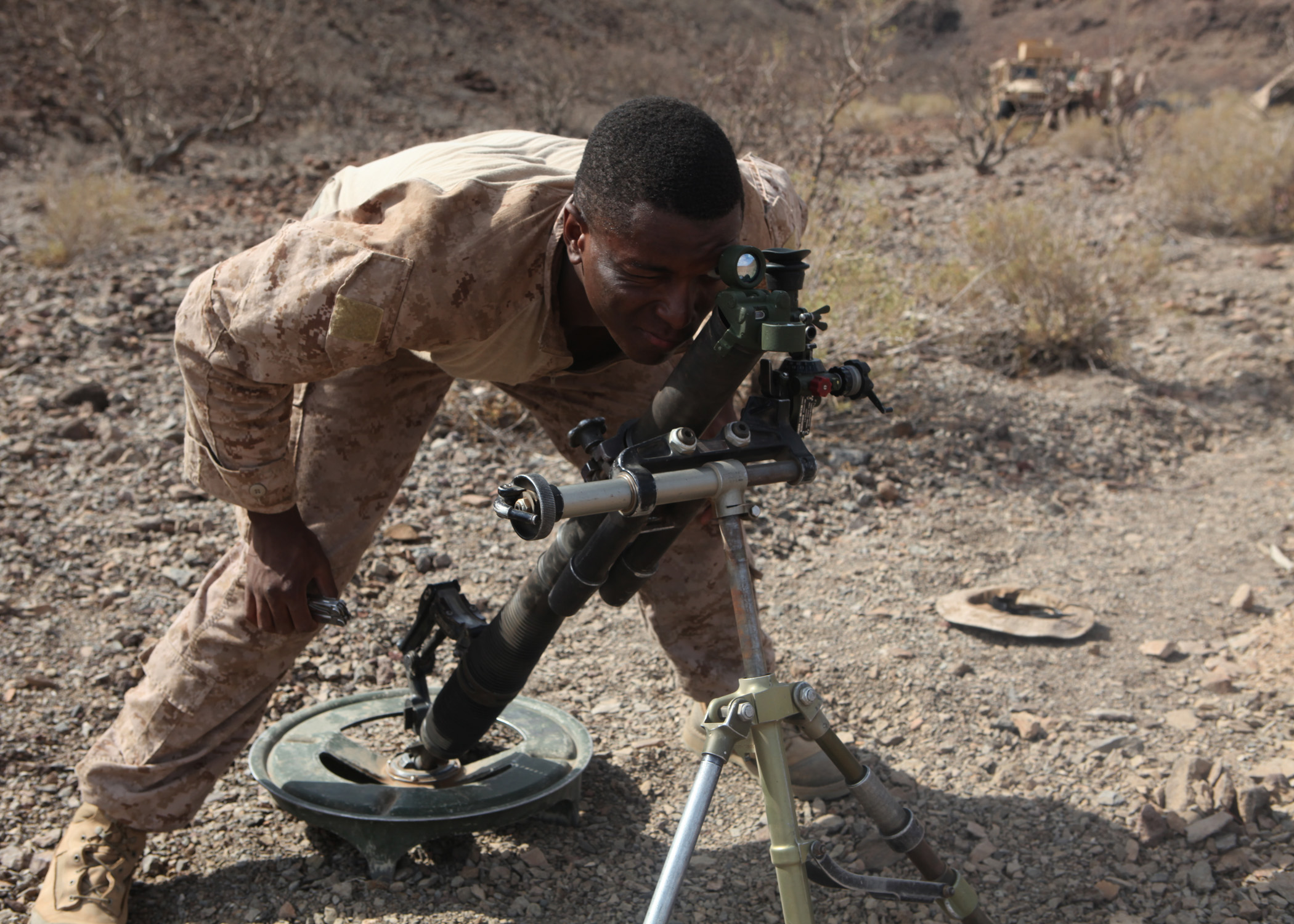 Lance Cpl. Kentarus D. Maronie, a mortarman with Echo Company, Battalion Landing Team, 2nd Battalion, 2nd Marine Regiment, 22nd Marine Expeditionary Unit (MEU), and Greenville, S.C., native, bore sights an M224 60mm mortar system during a mortar range outside of Camp Lemonnier, Djibouti, Oct. 9, 2011. The Marines conducted conventional, coordinated fire training, hand-held fire training, and night fire training. The 22nd MEU is currently deployed as part of the Bataan Amphibious Ready Group (BATARG) as the U.S. Central Command theatre reserve force, also providing support for maritime security operations and theater security cooperation efforts in the U.S. 5th Fleet area of responsibility.